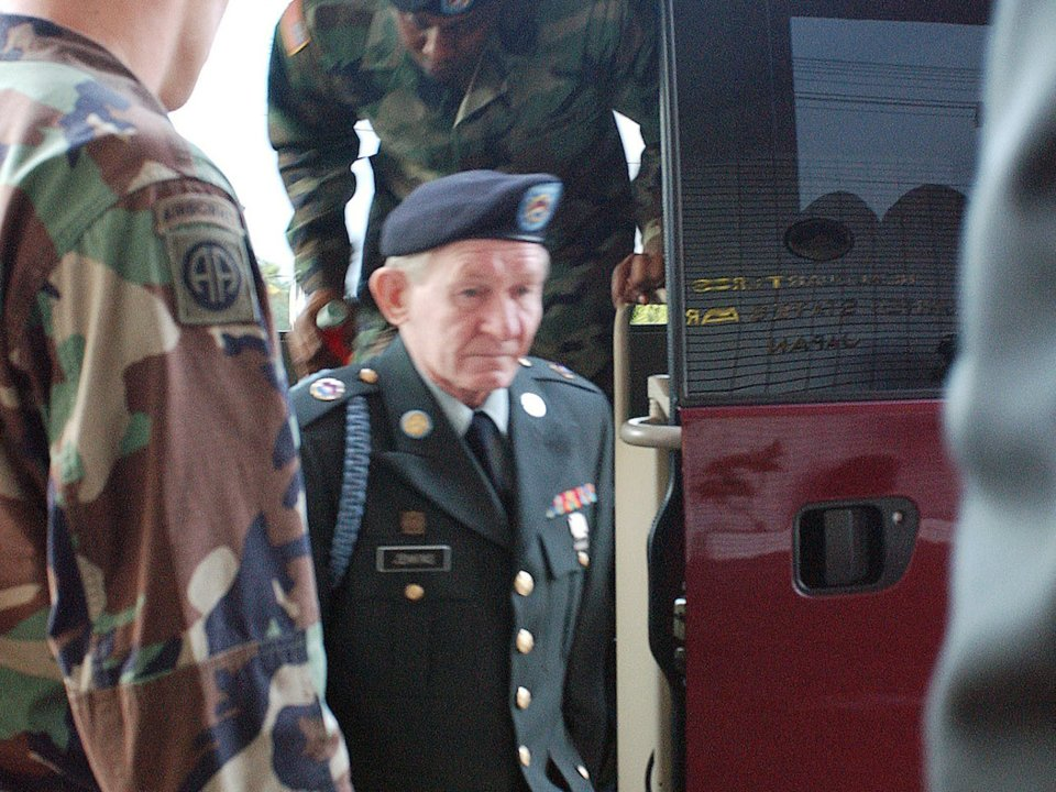 Charles Robert Jenkins attends his military court hearing in Camp Zama, Japan, in 2004